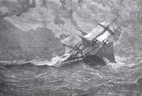 HMS Eurydice sinking off the Isle of Wight, 24 March 1878.